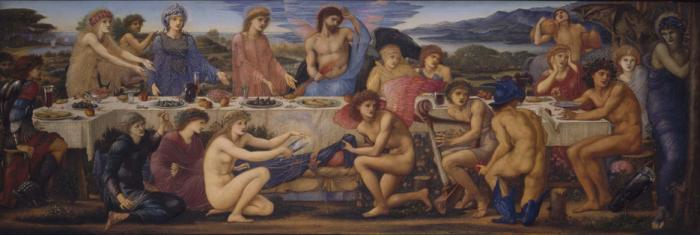 Depicts s the marriage of the mortal Peleus to the sea-goddess Thetis, with all the Olympian gods in attendance.